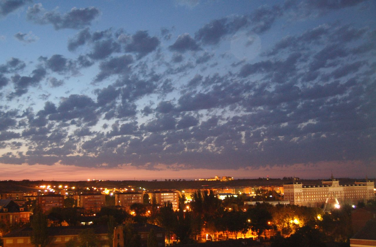 La Rondilla desde el antiguo hospital Rio Hortega See where this picture was taken. [?]